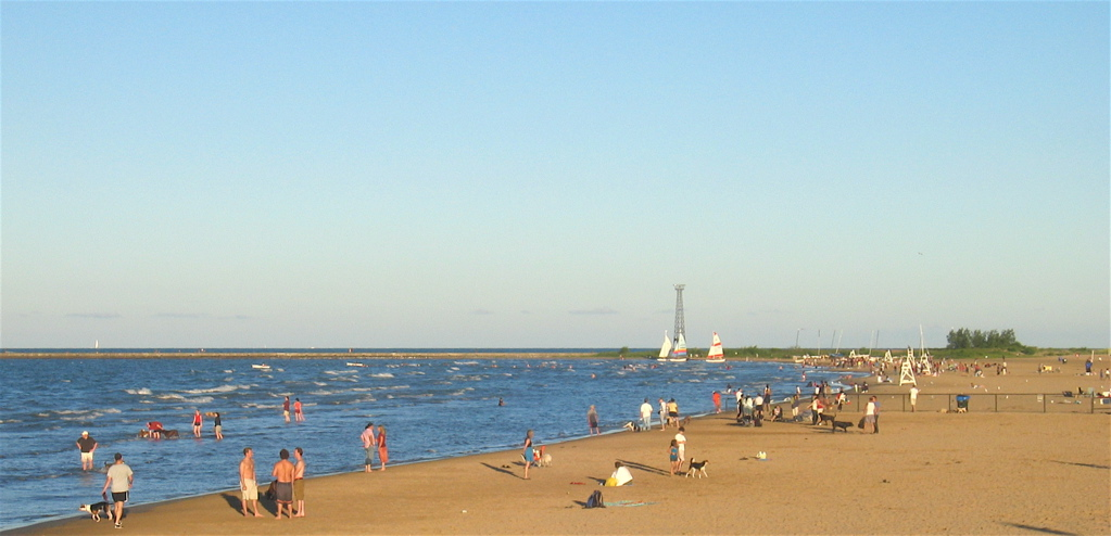 Montrose Avenue Beach, Chicago, Illinois.